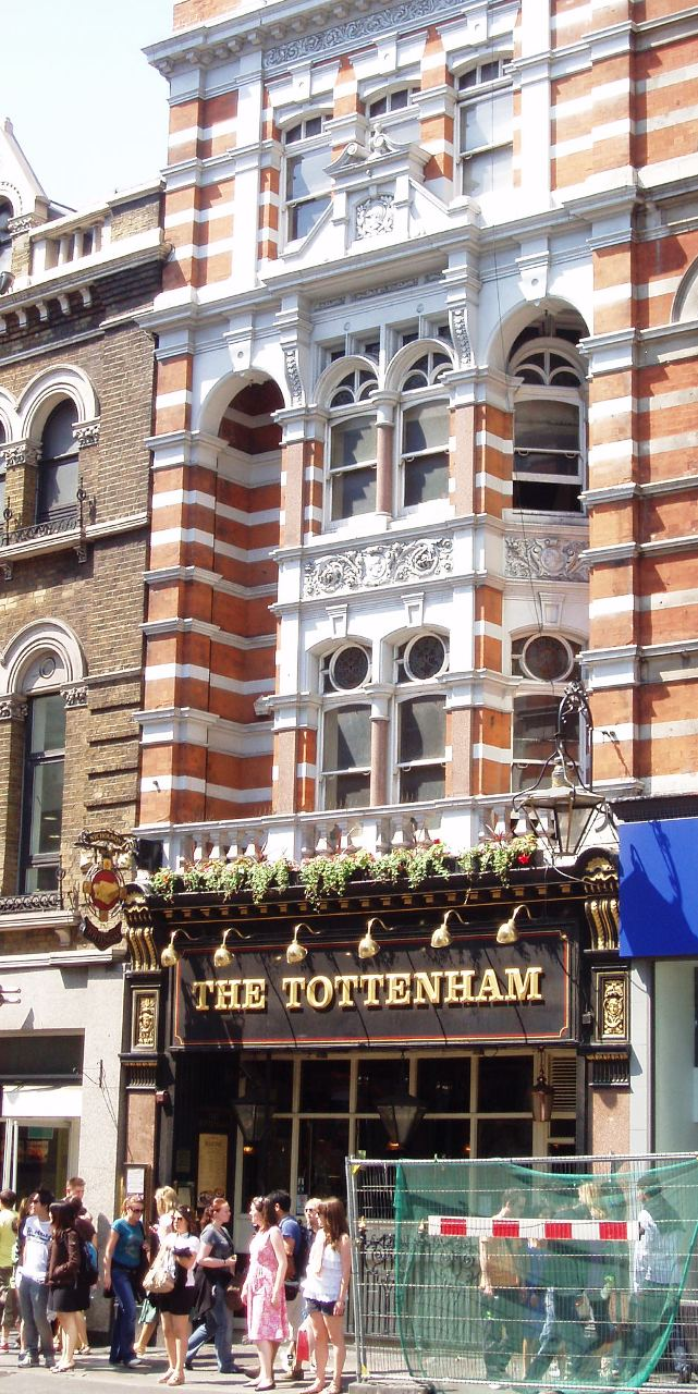 A busy pub opposite Tottenham Court Road station. Address: 6 Oxford Street. Former Name(s): The Flying Horse (on the same site). Owner: Mitchells and Butlers [Nicholson's] (website). Links: Randomness Guide to London Fancyapint Beer in the Evening Qype CAMRA National Inventory Dead Pubs (history)